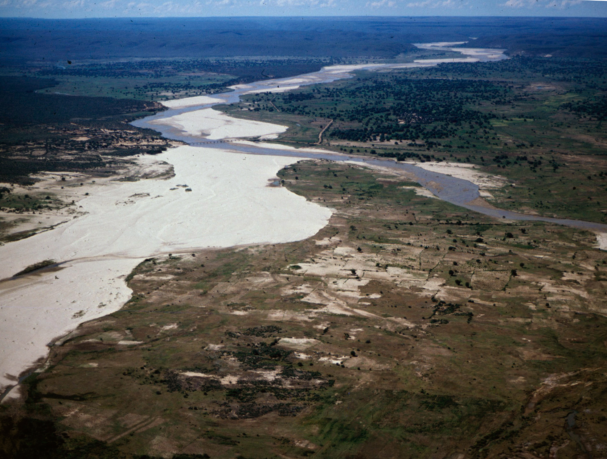 Fiherenana delta, South-West Madagascar